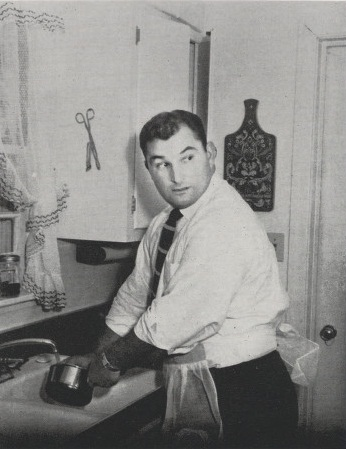 Photograph of Hank Stram, assistant football coach at Purdue